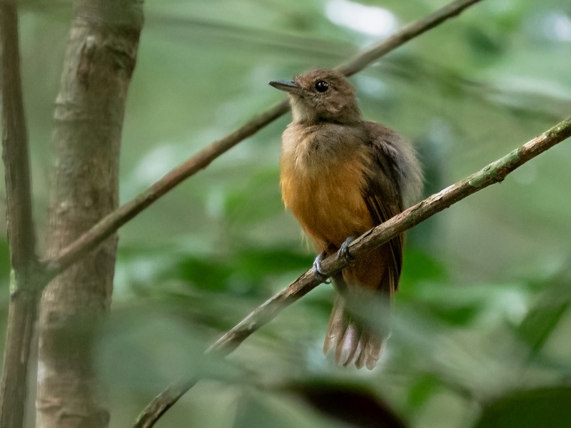 Cinereous Antshrike (female); Manacapuru, Amazonas, Brazil